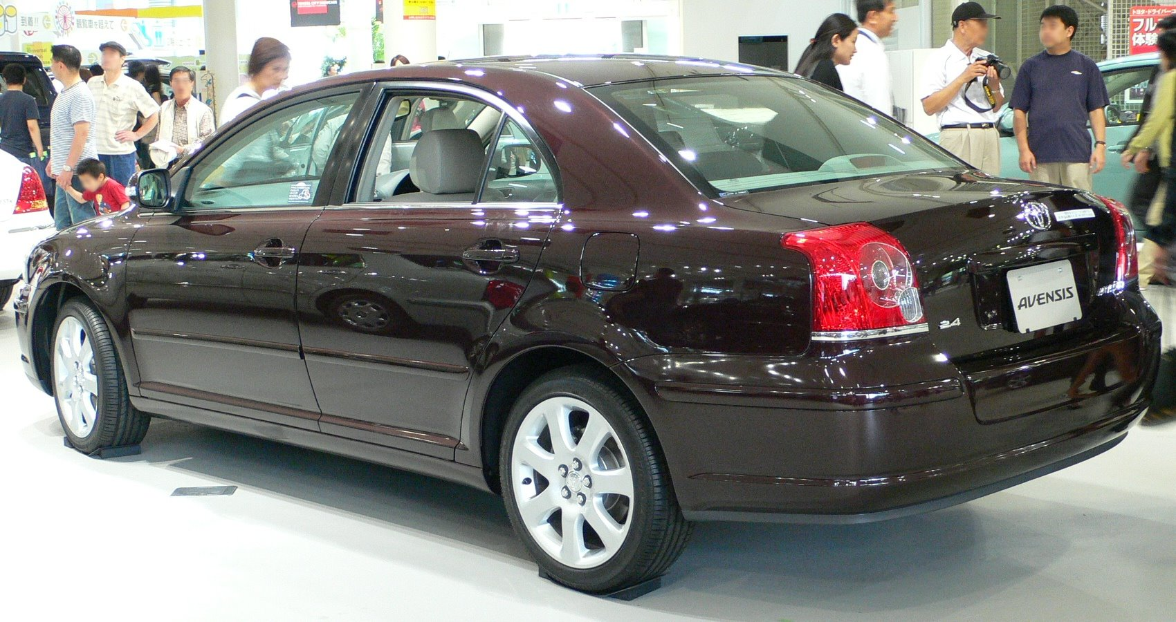 Toyota_Avensis(2006 - )photographed in MEGAWEB